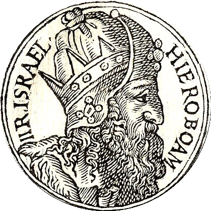 Jeroboam II